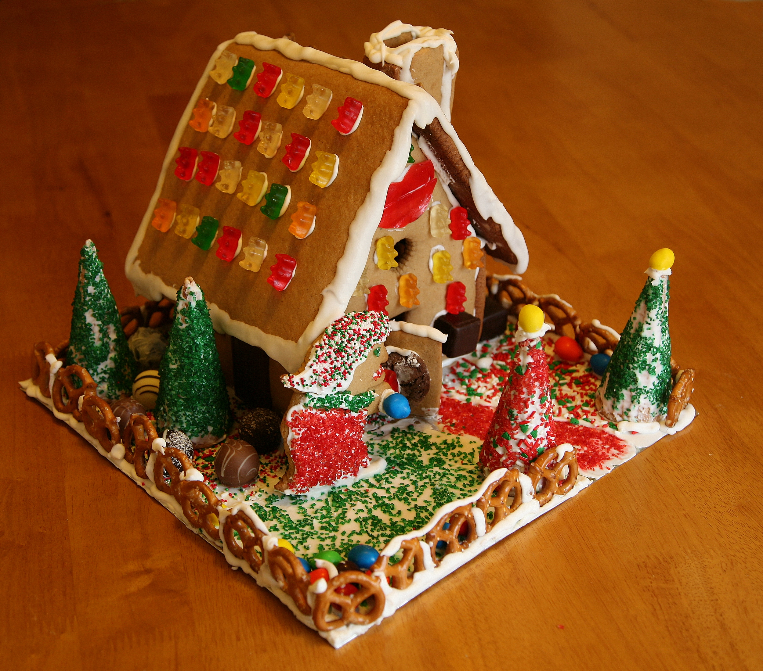 Gingerbread house